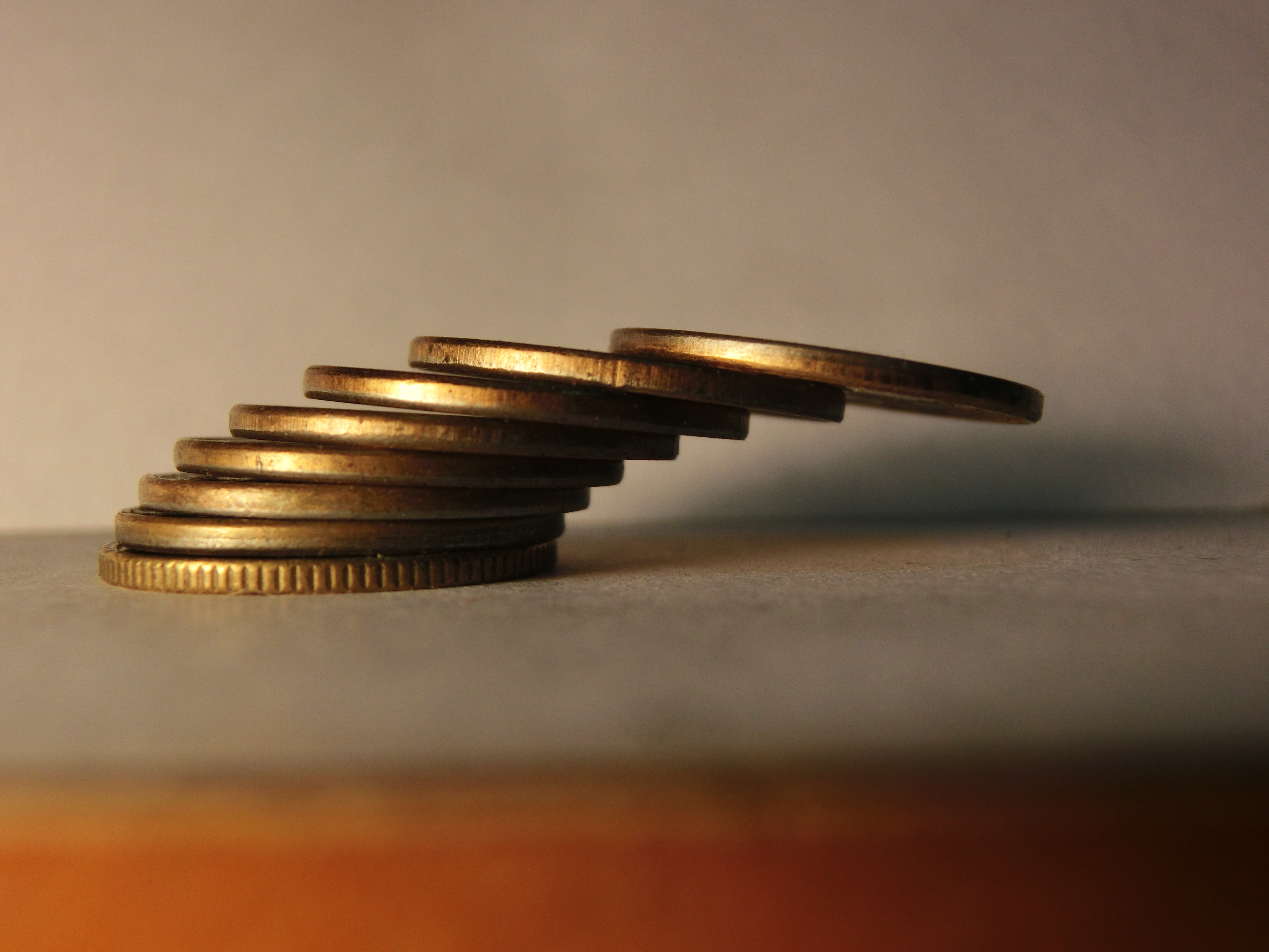 The upper coin is located entirely out of the region straight above the lowest coin, creating a paradoxical impression of the coin hanging despite the lack of necessary support.